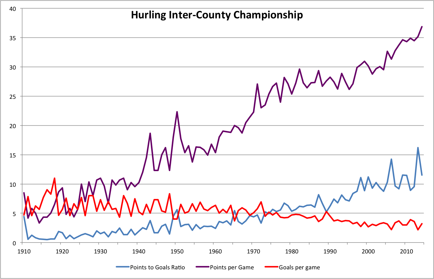 Hurling Inter-County Championship Scores to 2014